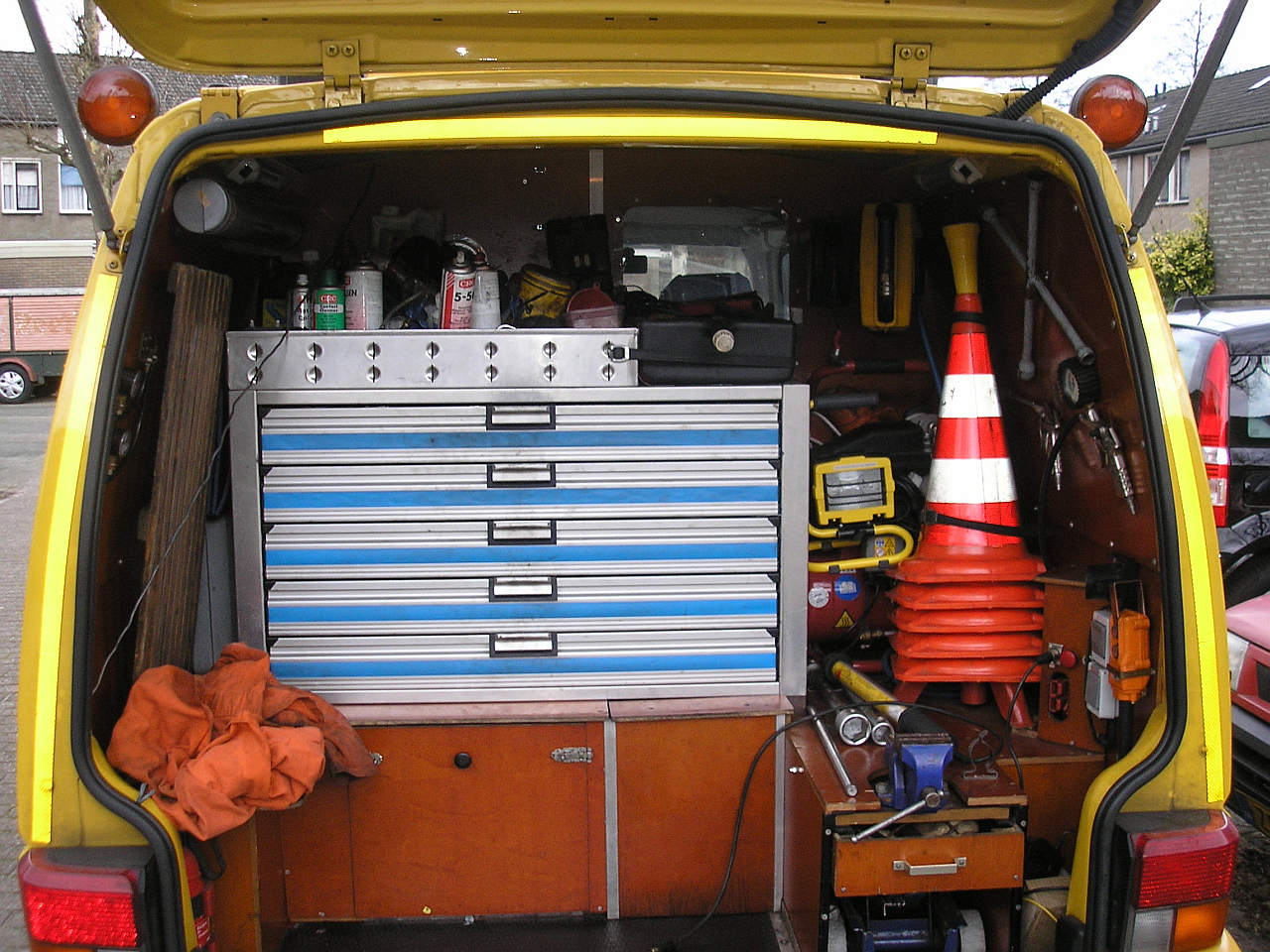 Mobile workshop in a VW-Van in use by dutch "Wegenwacht". Location: Hengelo (Overijssel), Netherlands